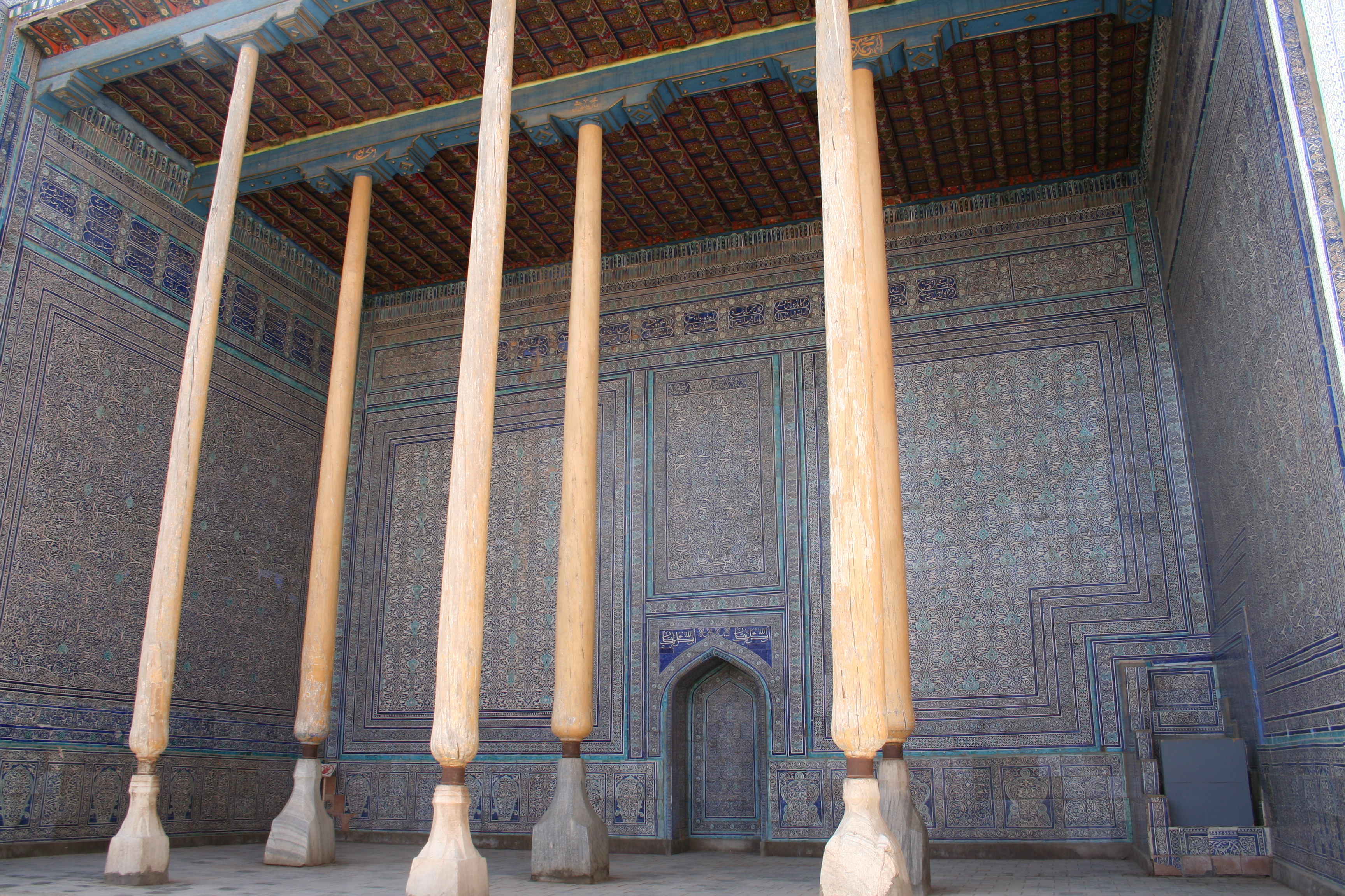 Khiva, mosque of the citadel